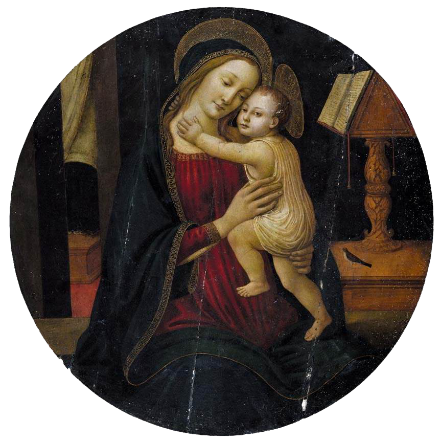 as requested background removed. A restored version of this file can be found here: File:Arcangelo di Jacopo del Sellaio Virgen con Niño (restauré).png